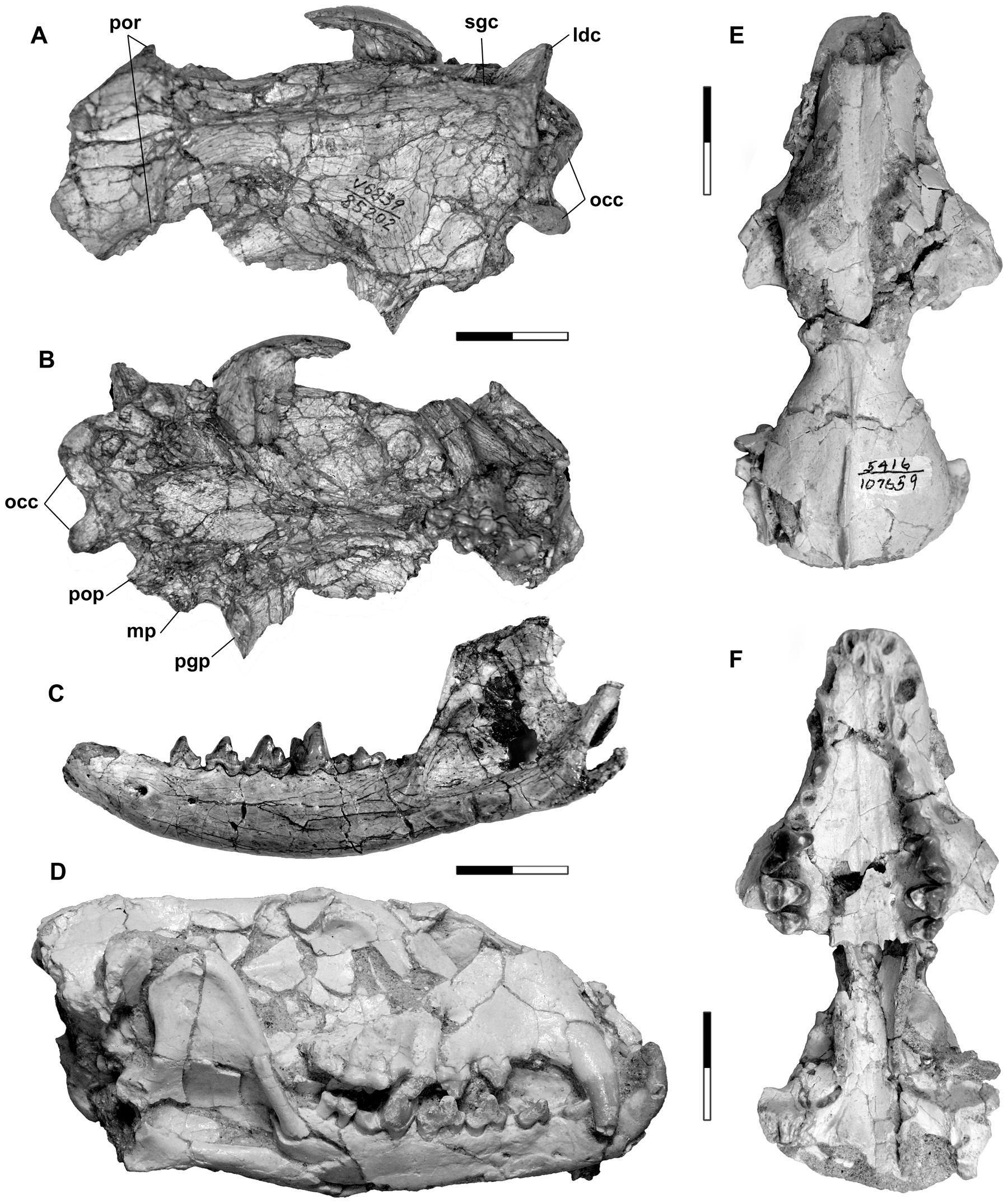 Crania and mandibles of Lycophocyon hutchisoni. Holotype UCMP 85202 (A–C), SDSNH 107442 (D), and SDSNH 107659 (E, F), showing cranium in dorsal (A) and ventral (B) views, left dentary (C), cranium articulated with mandible (D), and cranium in dorsal (E) and ventral (F) views. Scale bars equal 2 cm. Abbreviations: ldc, lambdoidal crest; mp, mastoid process; occ, occipital condyle; pgp, postglenoid process; pop, paroccipital process; por, postorbital process; sgc, sagittal crest.